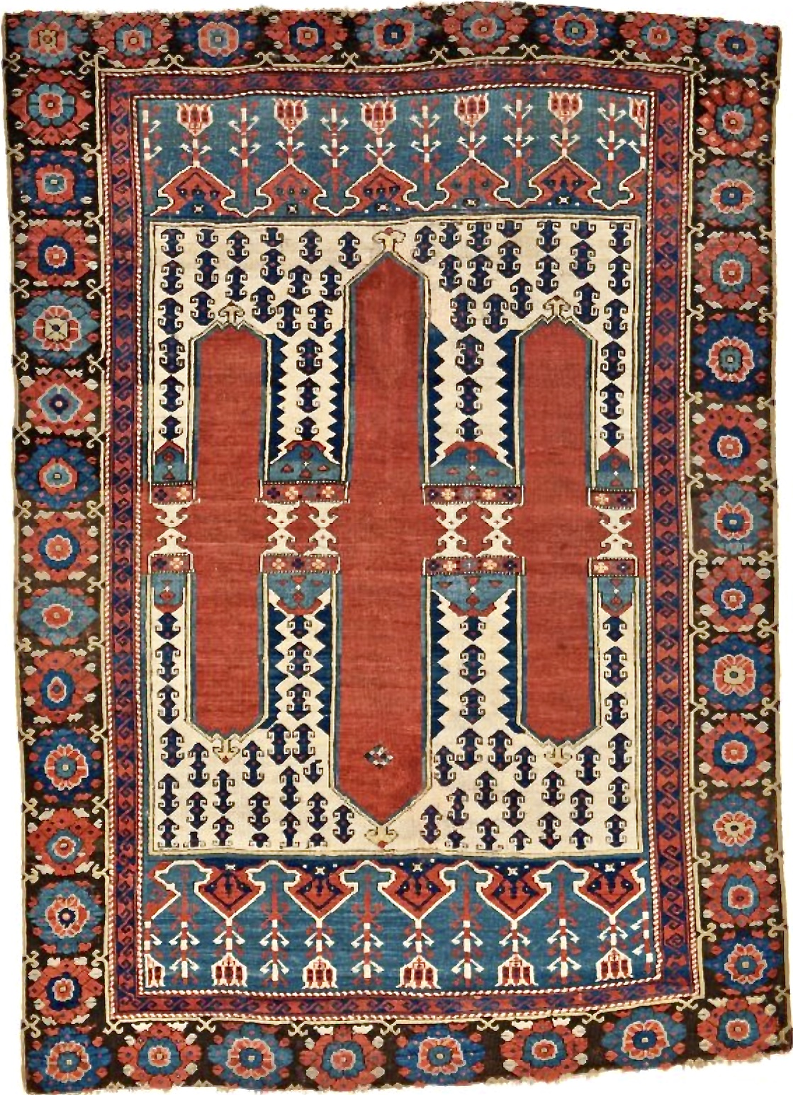 Bergama Rug West Anatolia, first half 18th century 219 x 162 cm (7’ 2” x 5’ 4”) Condition: very good according to age, corroded brown, outer side border missing, pile low in places, some old repairs Warp: wool, weft: wool, pile: wool This rare and unusual west Anatolian 'Bergama’ variant, possibly from the first half of the 18th century, is of the arch, column and tulip panel type often associated with lightly later Central Anatolian 'Ladik' rugs, as well as the more conventional 18th century West Anatolian 'coupled-column' genre. The design is bilaterally symmetrical around the centre of the rug, and the confidently drawn abstracted columns, with their scattering of double hooked motifs in blue on an ivory ground, stand out in strong contrast to the red ground of the six niches that they frame. Although many design features, in particular the well-balanced rosette border and the 'Ladik' tulip panels might suggest a Central Anatolian origin, the colours point to Western Turkey. The rug was acquired at Rippon Boswell in 1998 (HALI 101, p. 133). It closely resembles an arguably slightly later rug (one of the very few Turkish rugs with an in-woven date) in the Joseph V. McMullan Collection at the Metropolitan Museum of Art in New York (Joseph V. McMullan, Islamic Carpets, 1965, pl. 92). Together with the McMullan rug and an example sold by Lefevre in London in February 1980, it is arguably best of type in this design group, later examples of which can be stiff and unappealing. Its intense colours closely match those of the squarer McMullan rug, which is dated 1182 AH (1768 CE). The Lefevre rug, while equal in draughtsmanship, had a more subdued palette and was dated to the mid-19th century. A comparable fourth example (dated c. 1800) from the collection of Van Cortland Manor in Historic Hudson Valley was offered by Sotheby's New York in December 1991, but that was cut and reduced through the centre, eliminating the central panel. Estimate: € 20000 - 30000